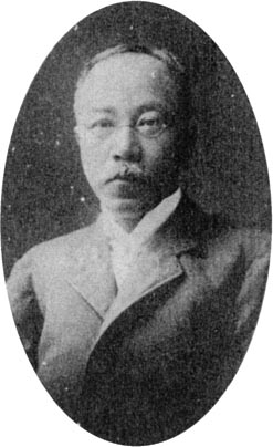 Benjiro Kusakabe, Inspector of Koshu Gakko.